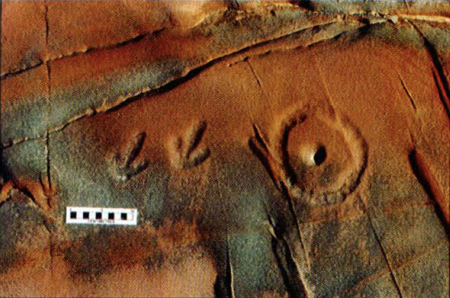 A photograph of Panaramitee Style engravings from Middle Arm Peninsula, Northern Territory, Australia.